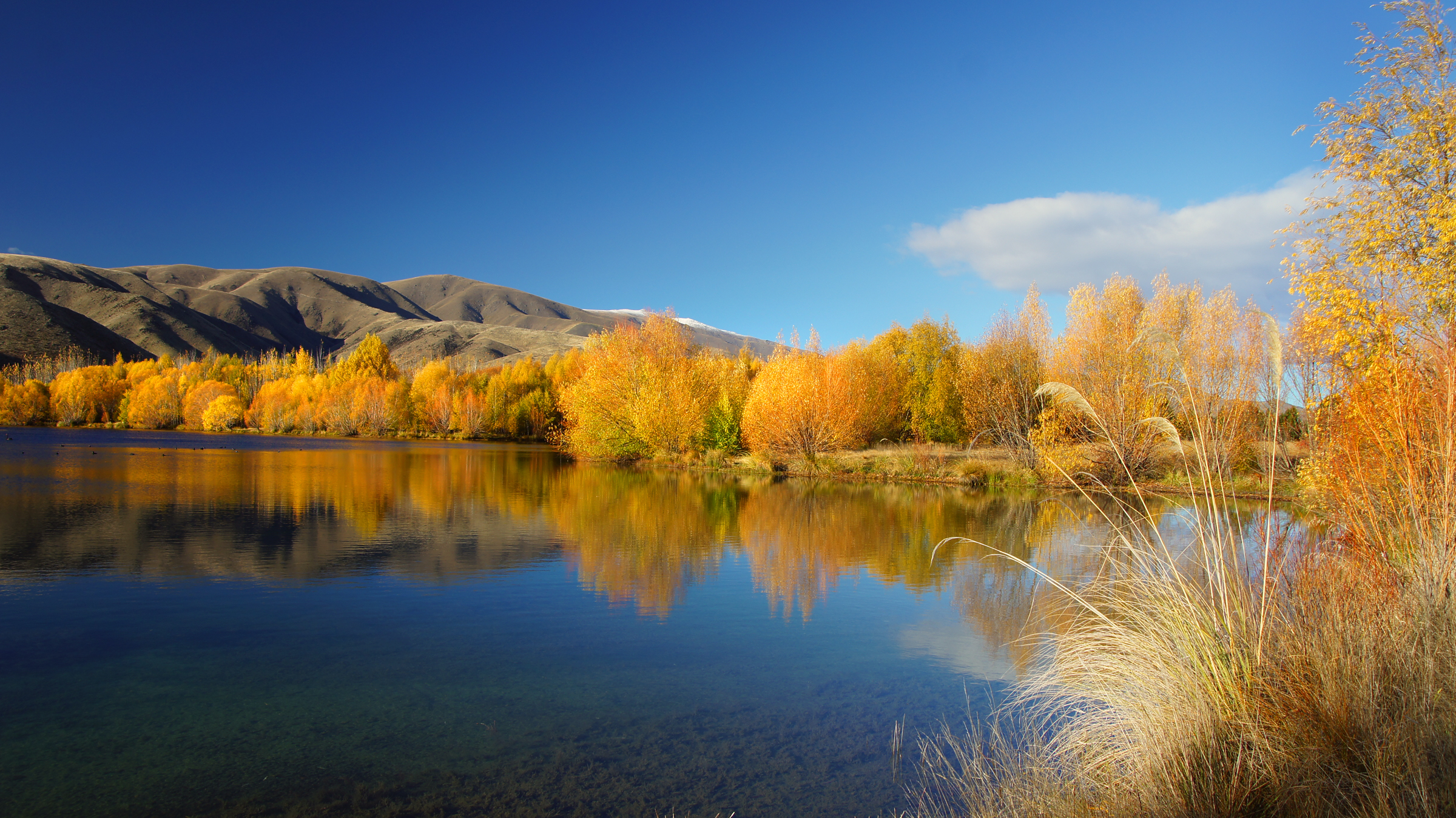 Golden Season (11)